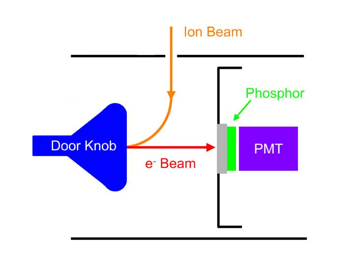 Daly-type charged particle detector. Diagram is an original work adapted from N. R. Daly, Scintillation Type Mass Spectrometer ion Detector. Rev. Sci. Instr. 3, 31, 264-267 (1960).